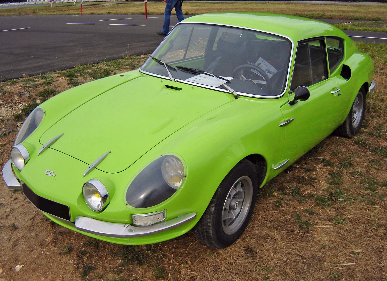 CG 1300 Coupé at the Autodrome de Linas-Montlhéry Montlhéry 2009.